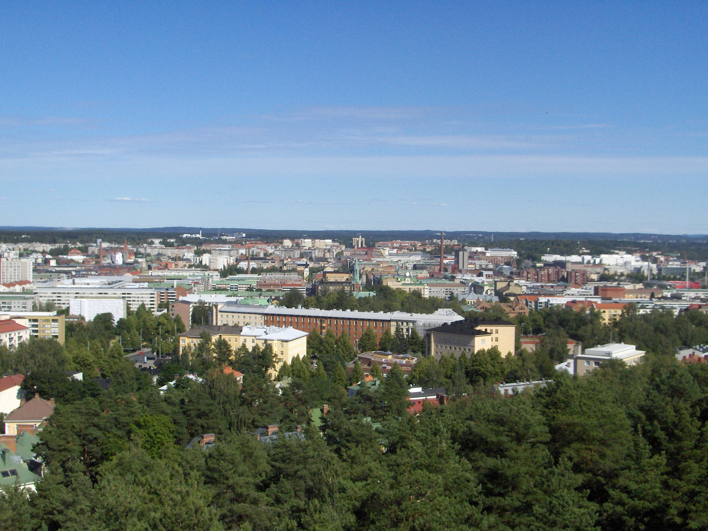 Downtown Tampere